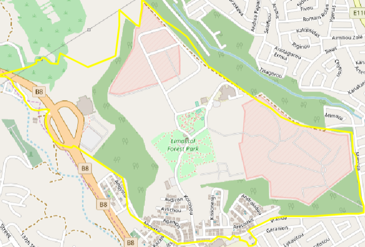 Map of Panagia Evangelistria.